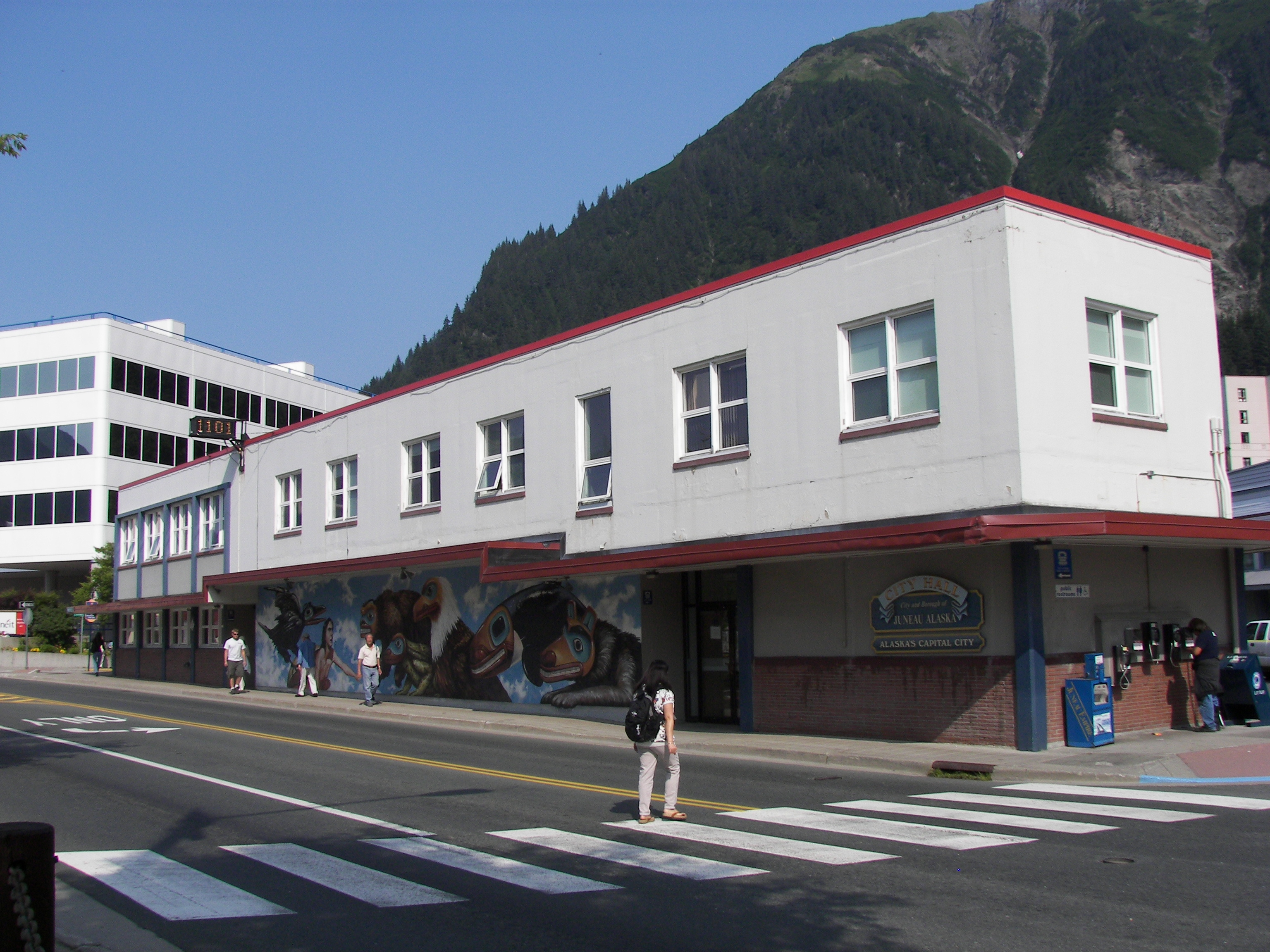 City Hall on Marine Way in downtown Juneau, Alaska.